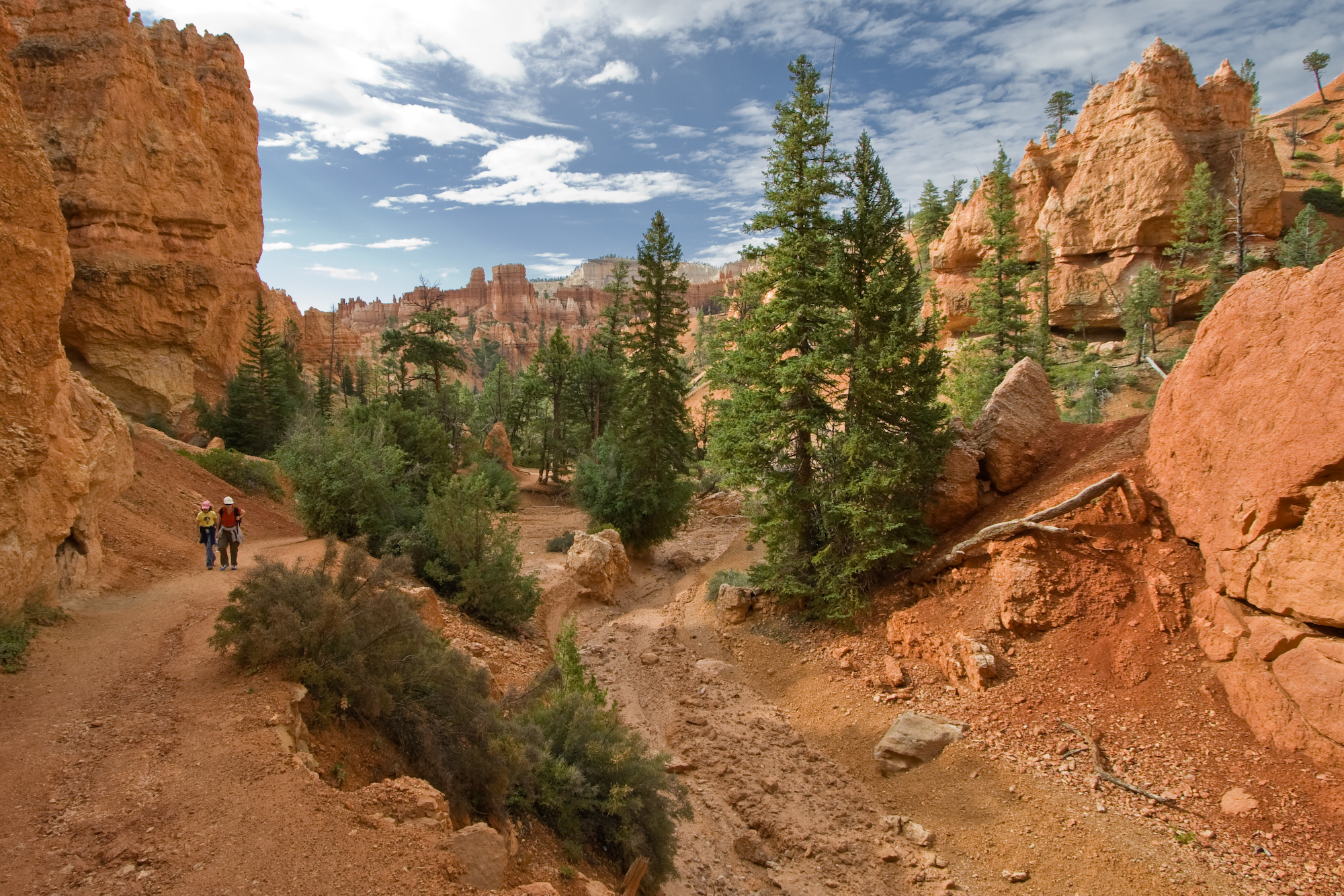 Navajo Trail, Bryce Canyon National Park, Utah, USA, Trees are Pseudotsuga menziesii and Pinus ponderosa